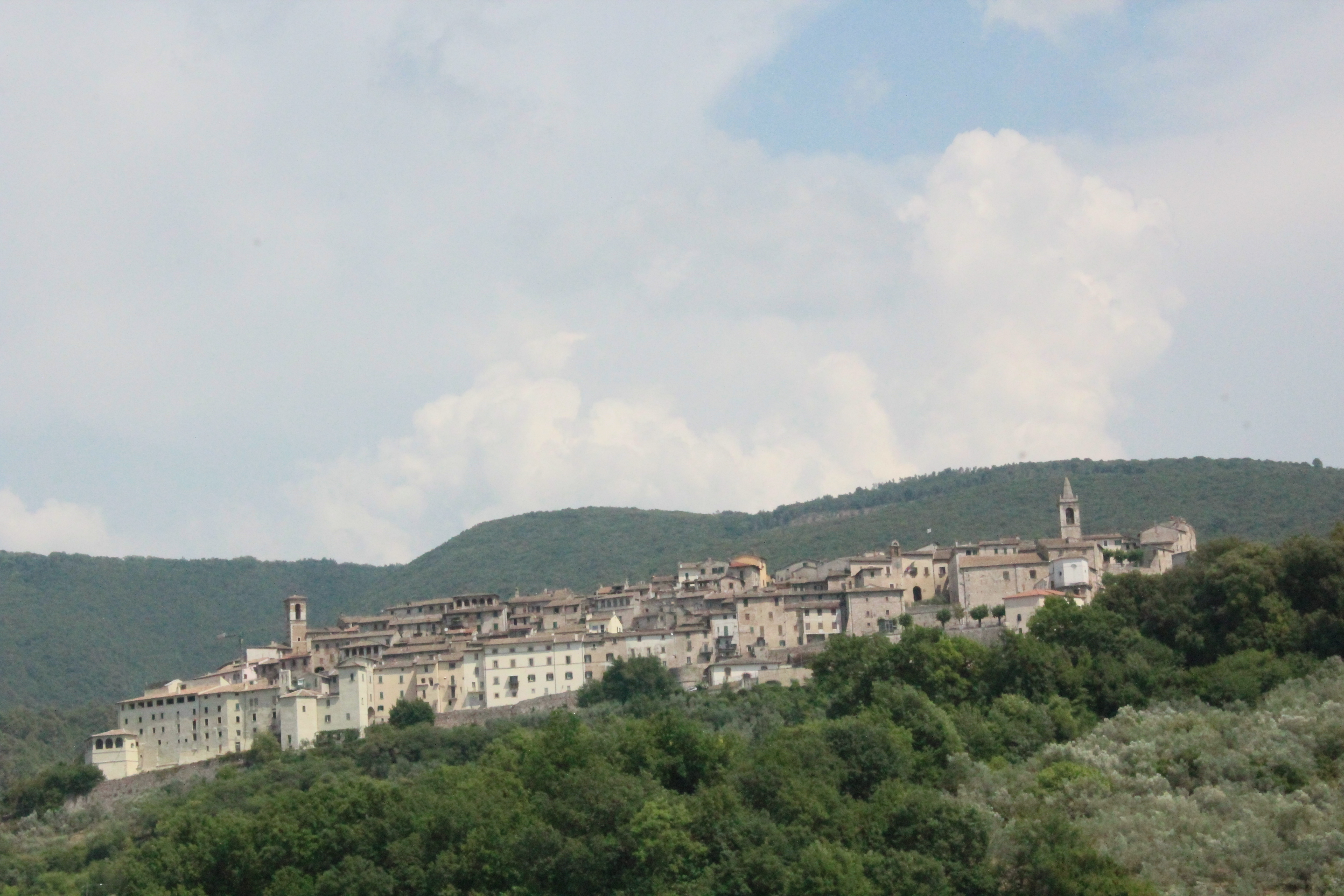 Panorama of Stroncone, Province of Terni, Umbria, Italy